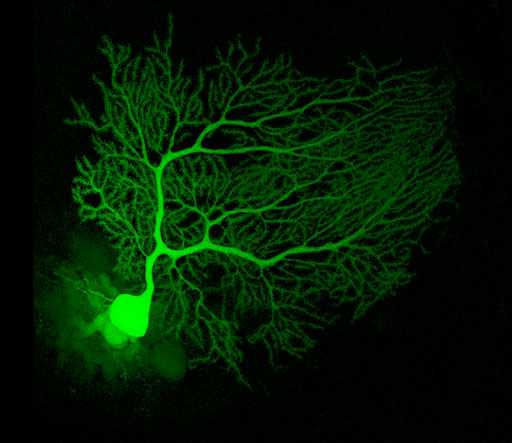 Purkinje cell from mouse cerebellum injected with Lucifer Yellow